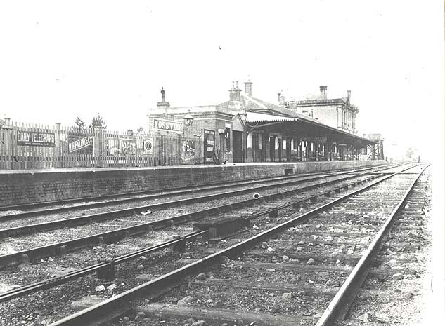 Moss Vale Railway Station Dated: c.31/12/1890 Digital ID: 17420_a014_a014000632 Rights: We'd love to hear from you if you use our photos. Many other photos in our collection are available to view and browse on our website using Photo Investigator. Heritage Branch, NSW Department of Planning states: "Moss Vale is one of the most important station groups in the State. It contains rare examples of early buildings, various later structures, vice-regal buildings, unique entry arrangement, very high quality buildings and the remains of a working yard seen in the signal box and embankments. The early elements of the site are significant buildings in their own right..." Wikipedia lists Moss Vale station as opening in 1867.